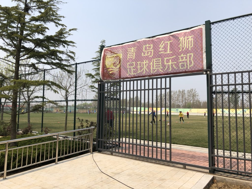 Entrance to the football pitches of the training base of Qingdao Red Lions Football Club, based in the Laixi Sports Center in Qingdao, China